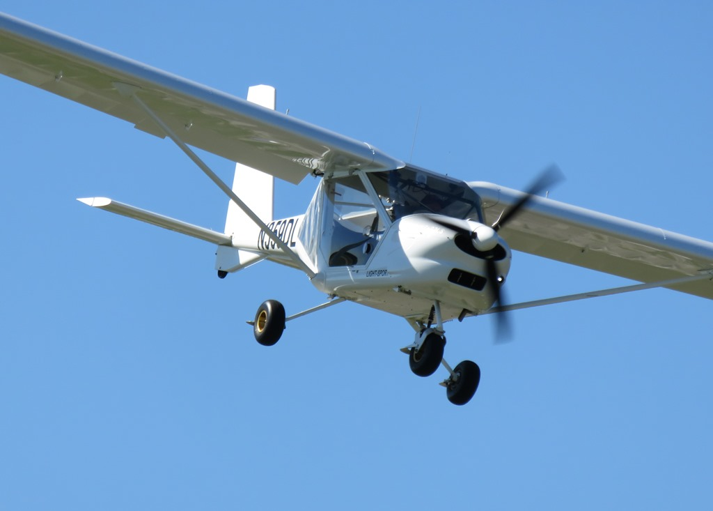 AEROPRAKT SP ZOO